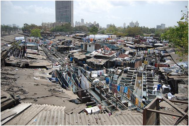 Washermen Mat, Located in Mumbai India